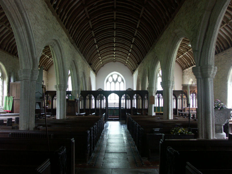 Parish Church of St. Nonna, Altarnun, Cornwall, England